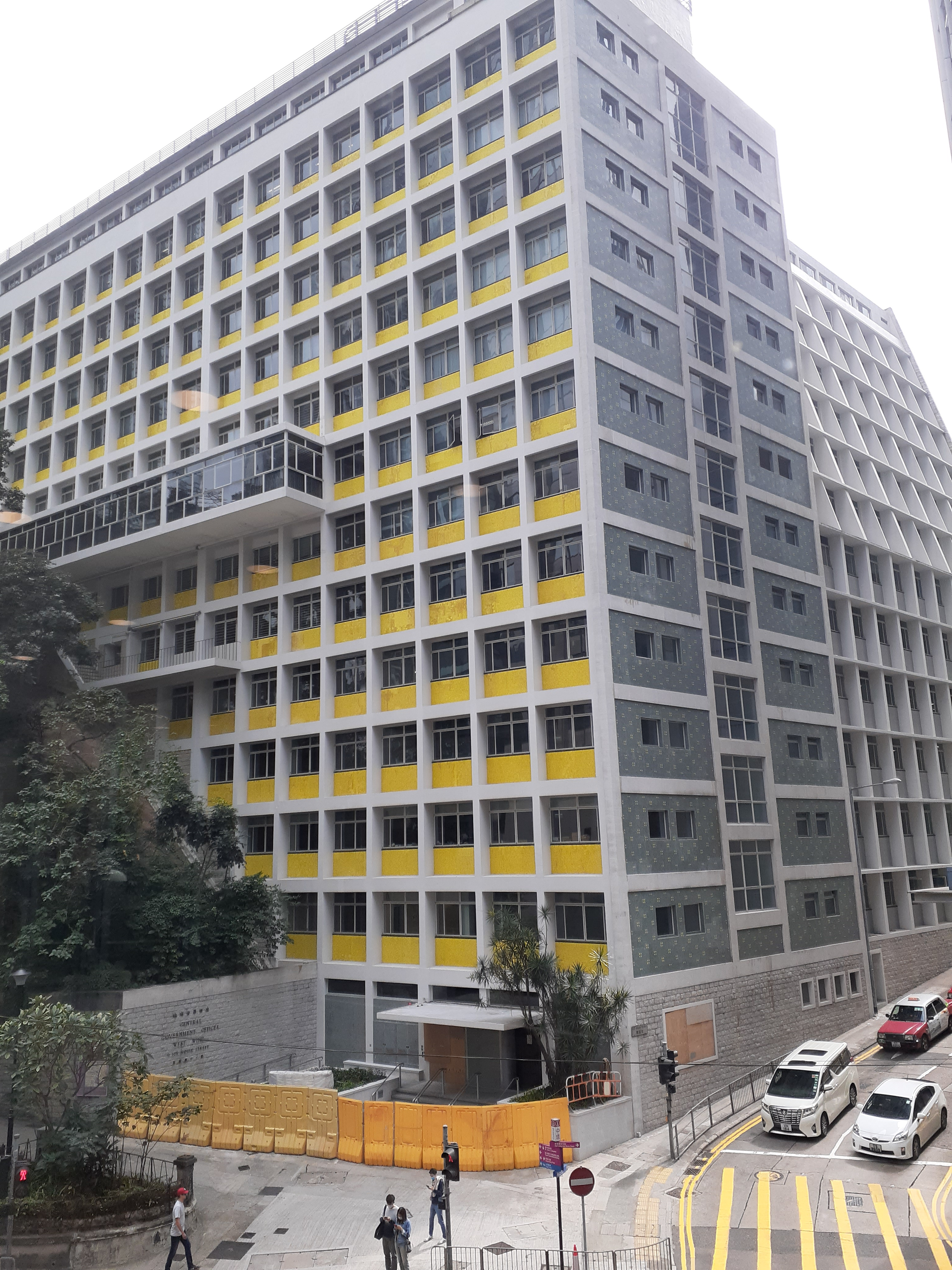 HK 中環 Central 置地廣場 Landmark footbridge view 雪廠街 Ice House Street March 2020